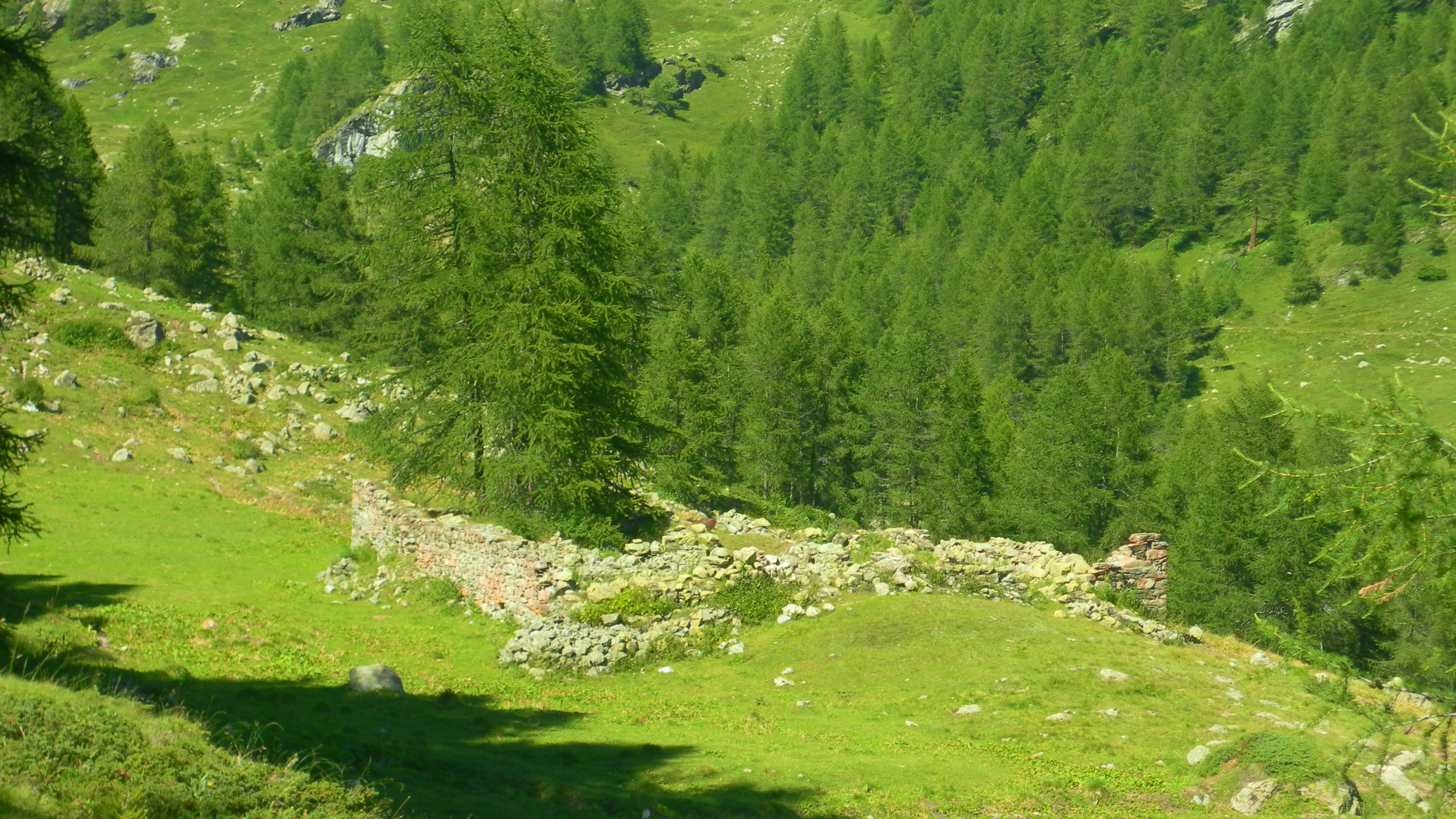 Ruins of Château de Chavacour, Torgnon, Aosta Valley (Italy)